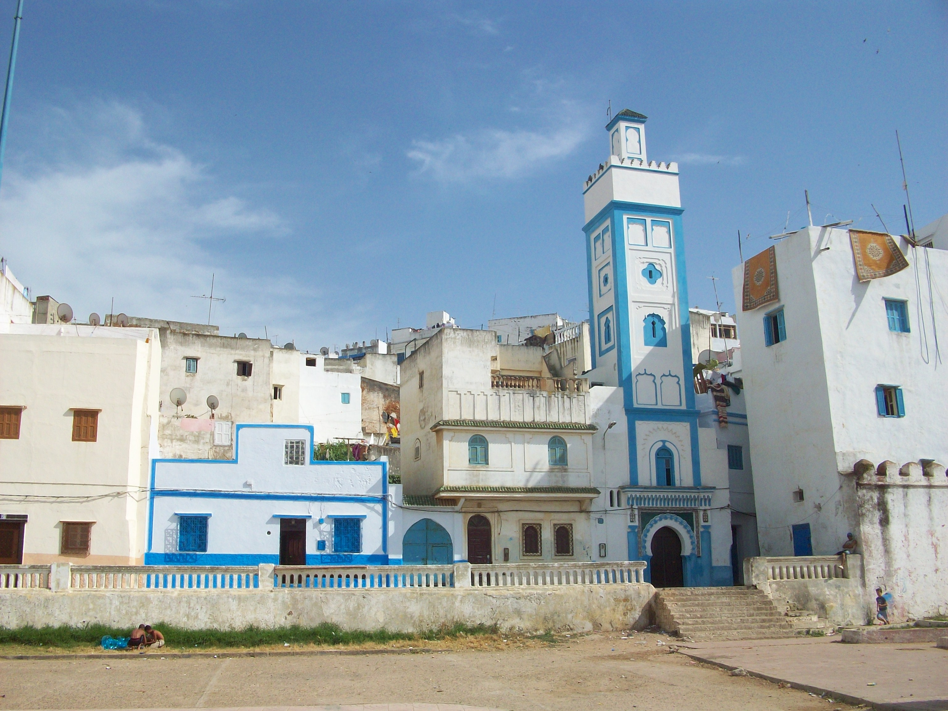 Medina of Larache, Morocco